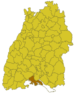 Map of Baden-Württemberg with the former county of Konstanz before 1973